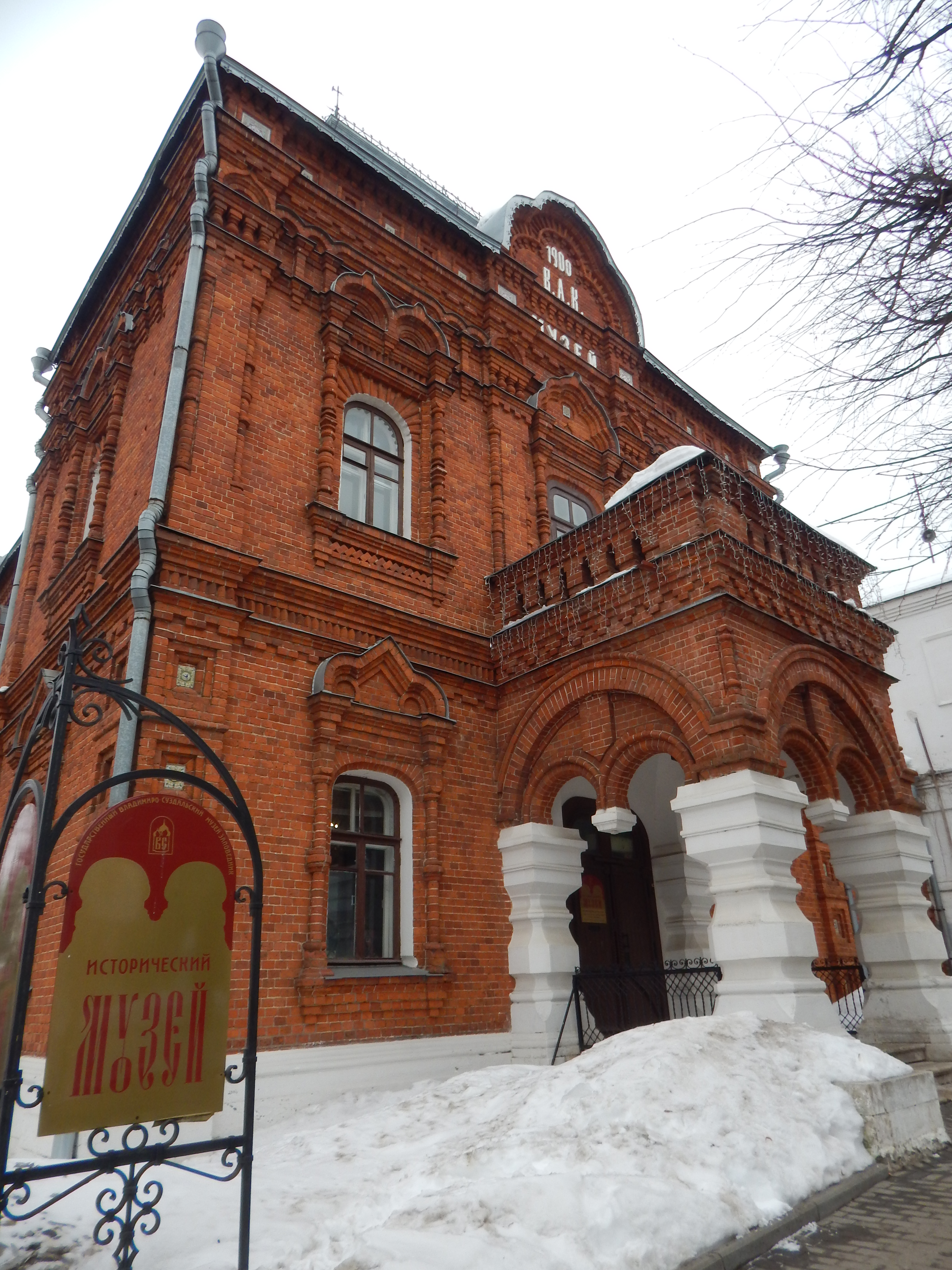 History museum building. Vladimir, Russia